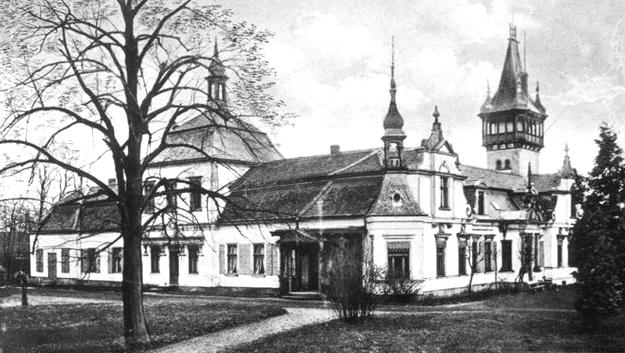 Palace Schloss Parey, Saxony-Anhalt about 1900